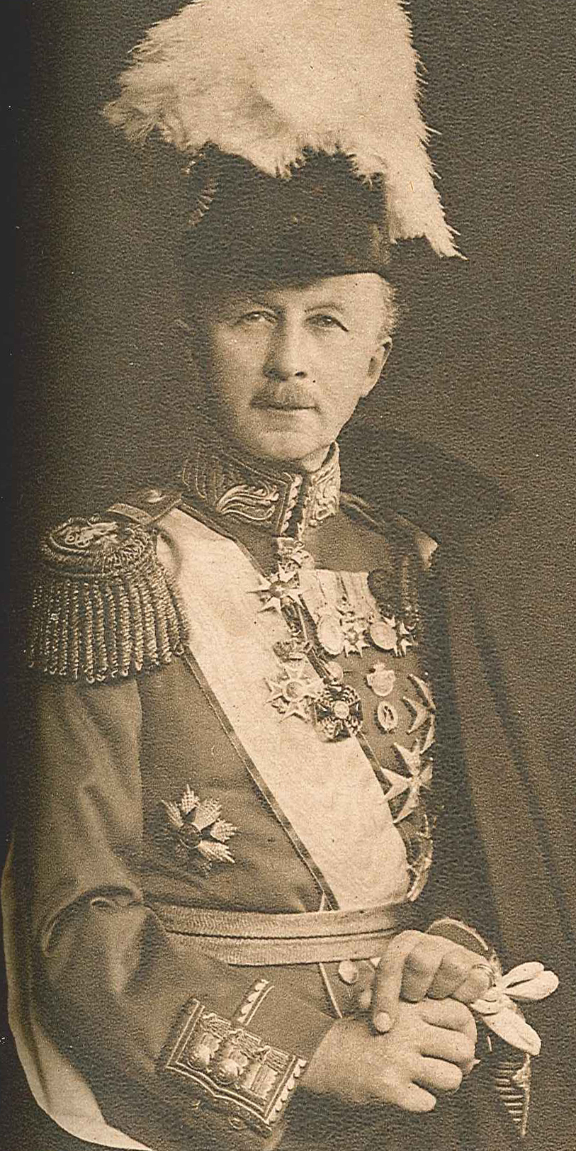 Charles, 6th duke D'Otrante (1877-1950), French nobleman and Swedish courtier (Hovstallmästare) during the reign of Gustaf V of Sweden